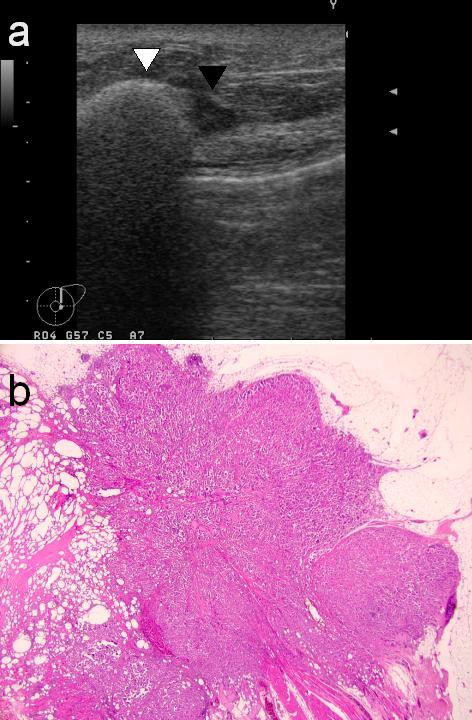 Ultrasonography of the left breast showing the siliconoma (white triangle) and the tumor (black triangle). b) Microscopic appearance of the siliconoma and the tumor correlated with the ultrasonographic image (hematoxylin-eosin stain, low-power field).